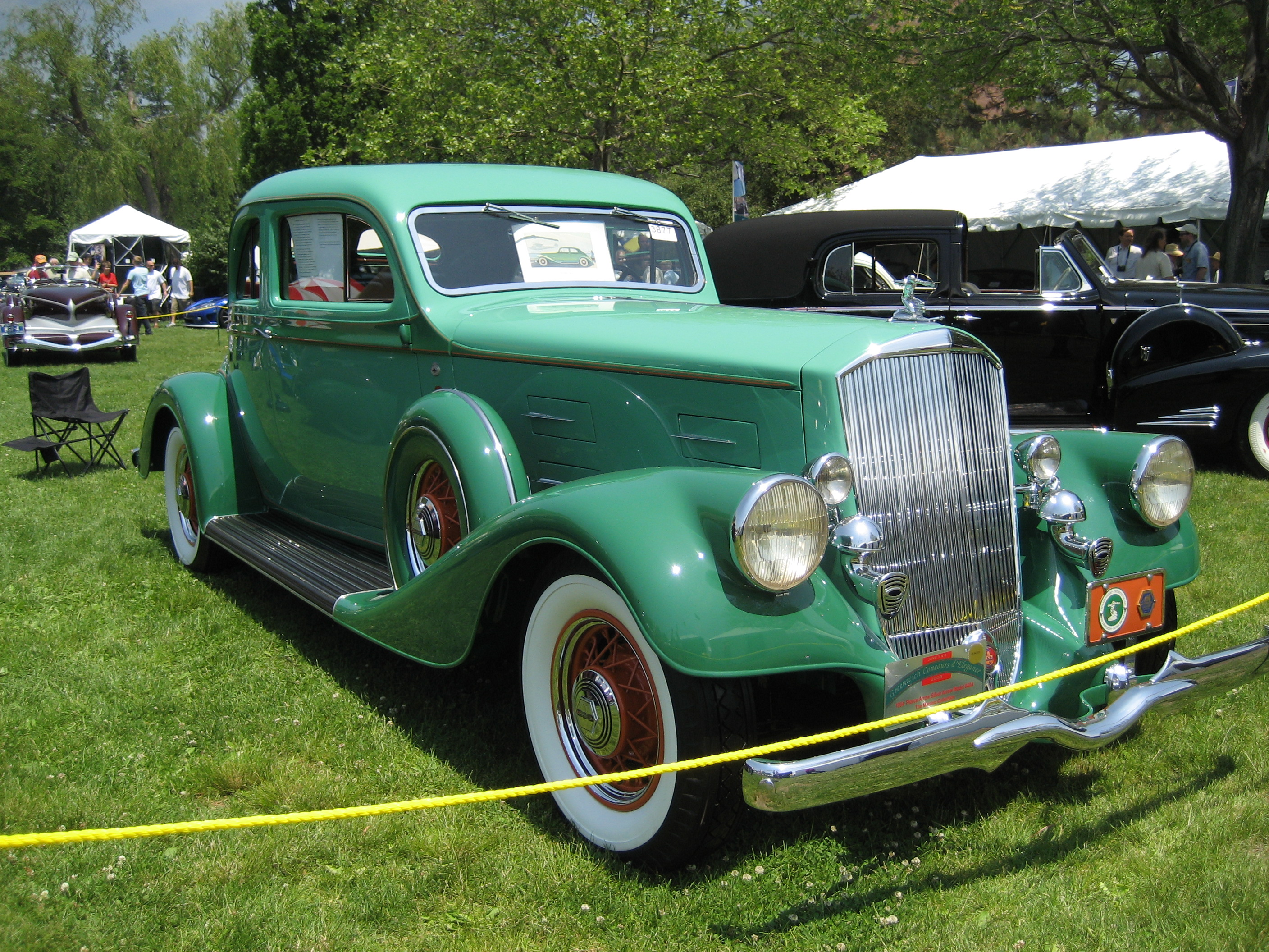 1934 Pierce-Arrow Silver Arrow Model 840A Coupe photographed at the 2008 Greenwich Concours d'Elegance in Greenwich, Connecticut.